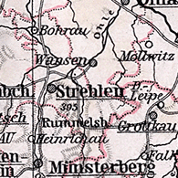 Detail from a map of Silesia.